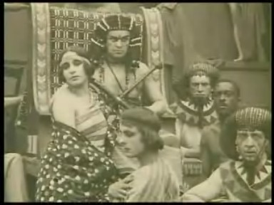 Photo of Murnau´s film "Satanas"